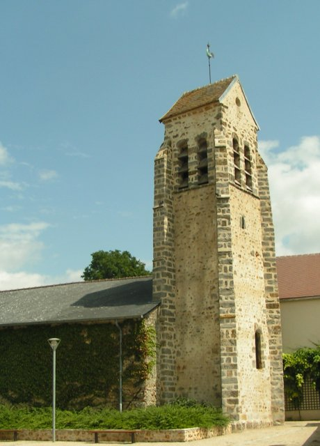 Bell tower in Saint-Aubin (Essonne, France).